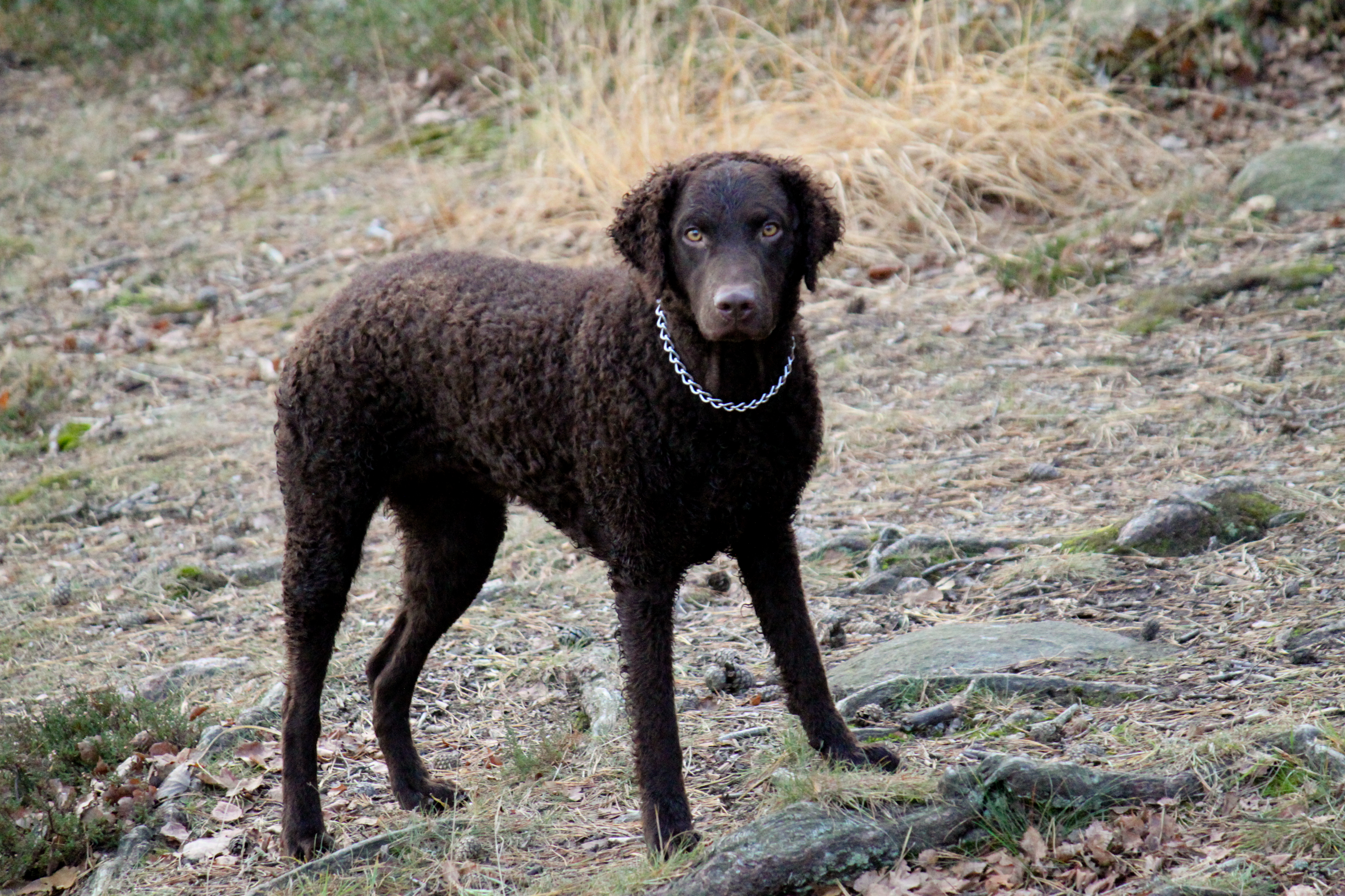 Curly Coated Retriever